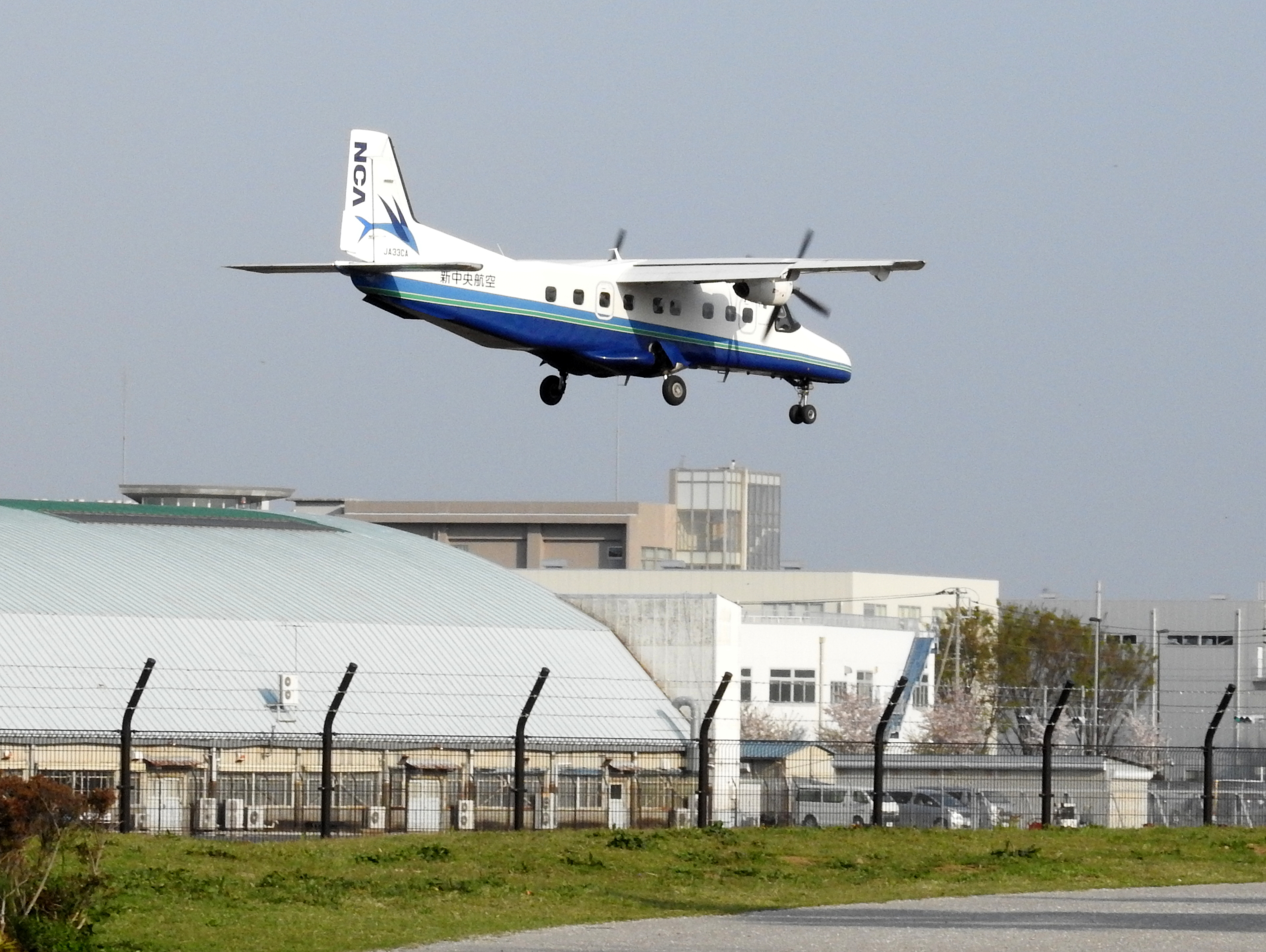 Dornier Do 228 JA33CA operated by New Central Air Service returning from the Izu islands lands back at Chofu Airport in Tokyo, Japan.